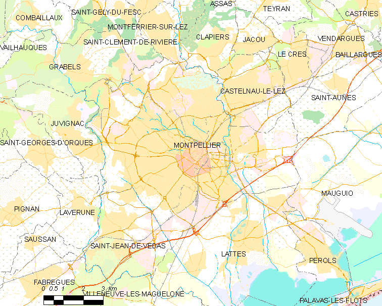 Map commune FR insee code 34172.png - Montpellier